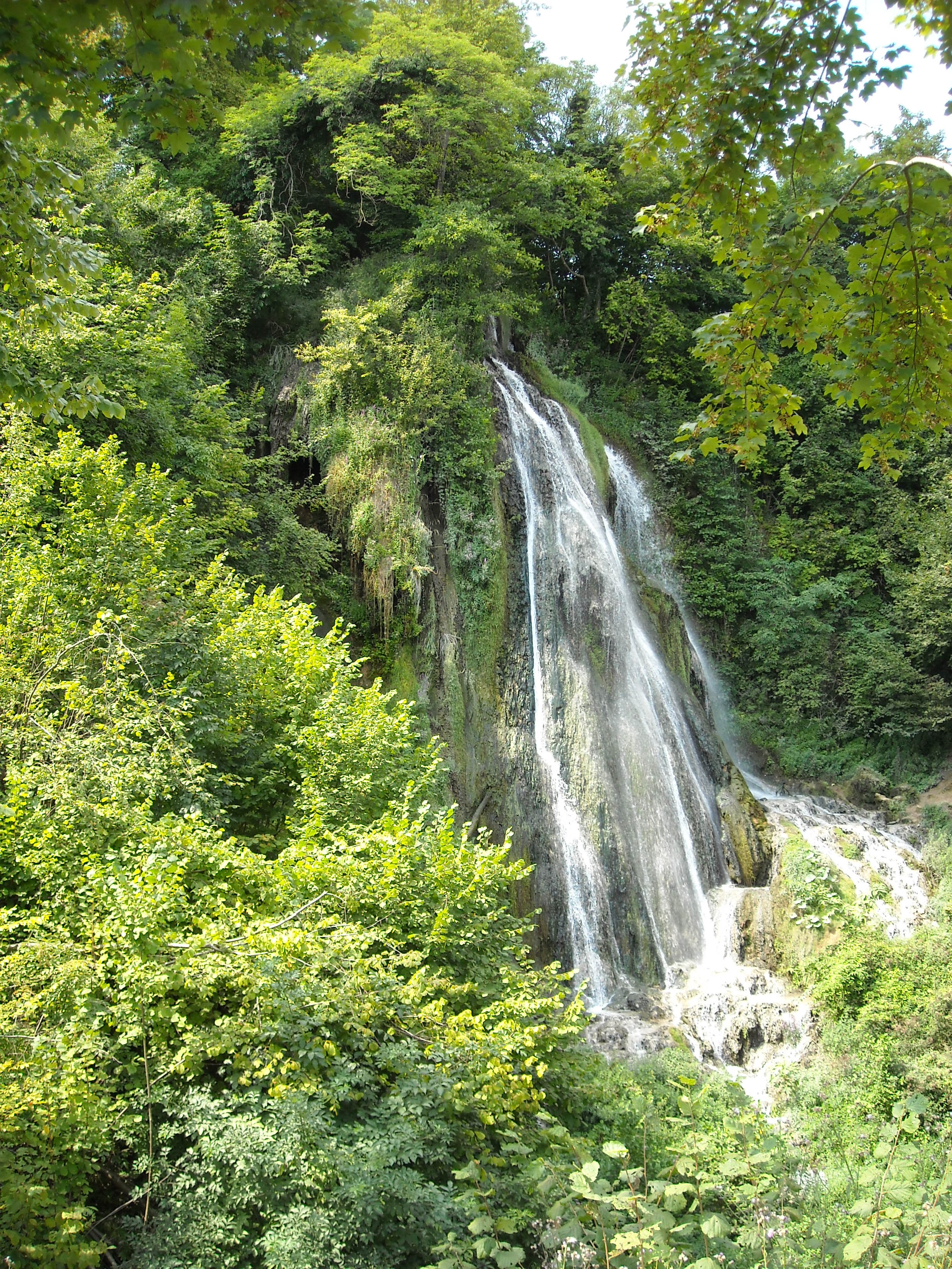 waterfall between Geoagiu and Geoagiu-Băi